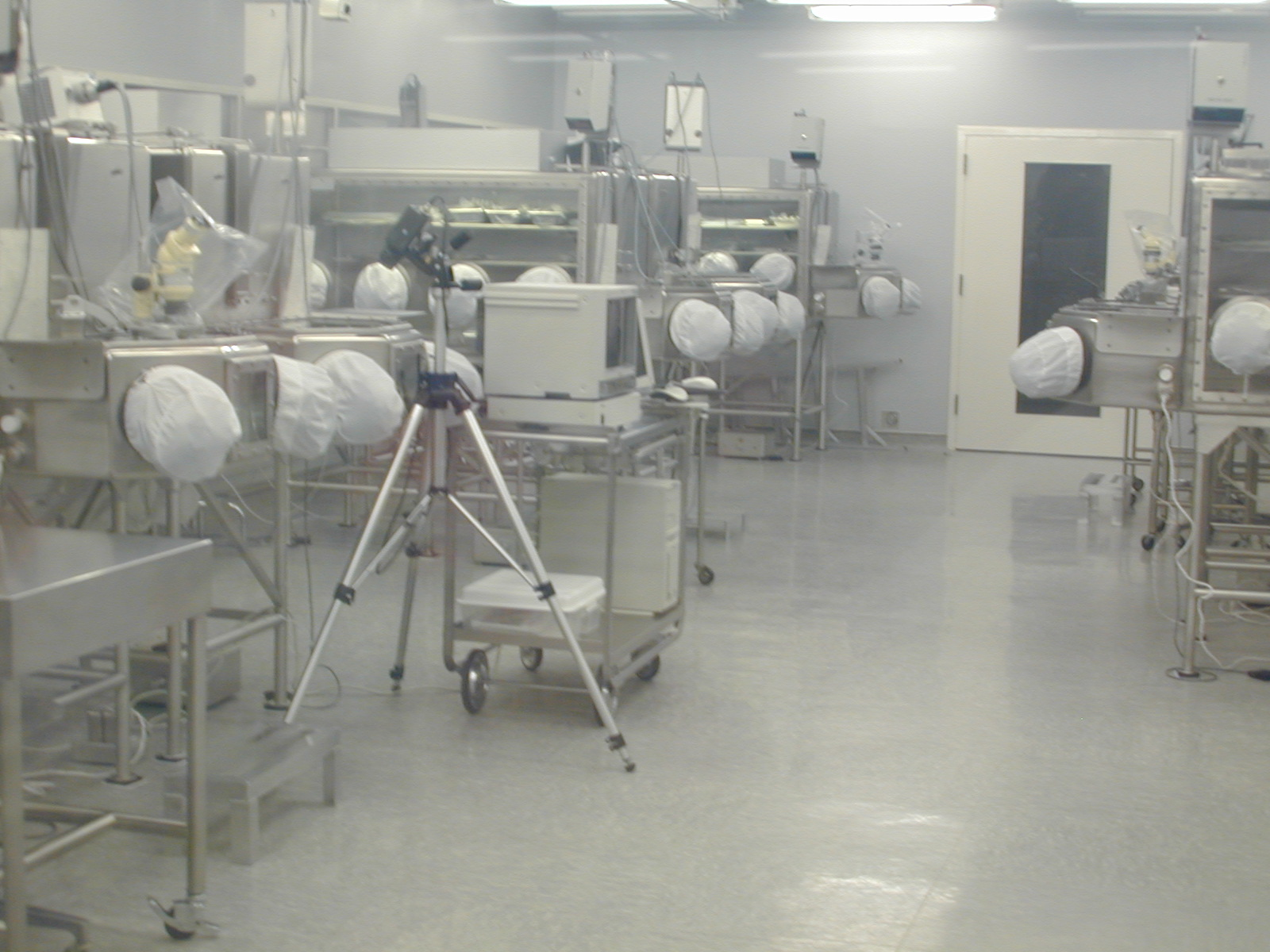 Part of the cleanroom lunar sample processing arrangements, showing the work areas, glove boxes and other provisions for avoiding lunar sample contamination at the Lunar Sample Building, Johnson Space Center, Houston, Texas